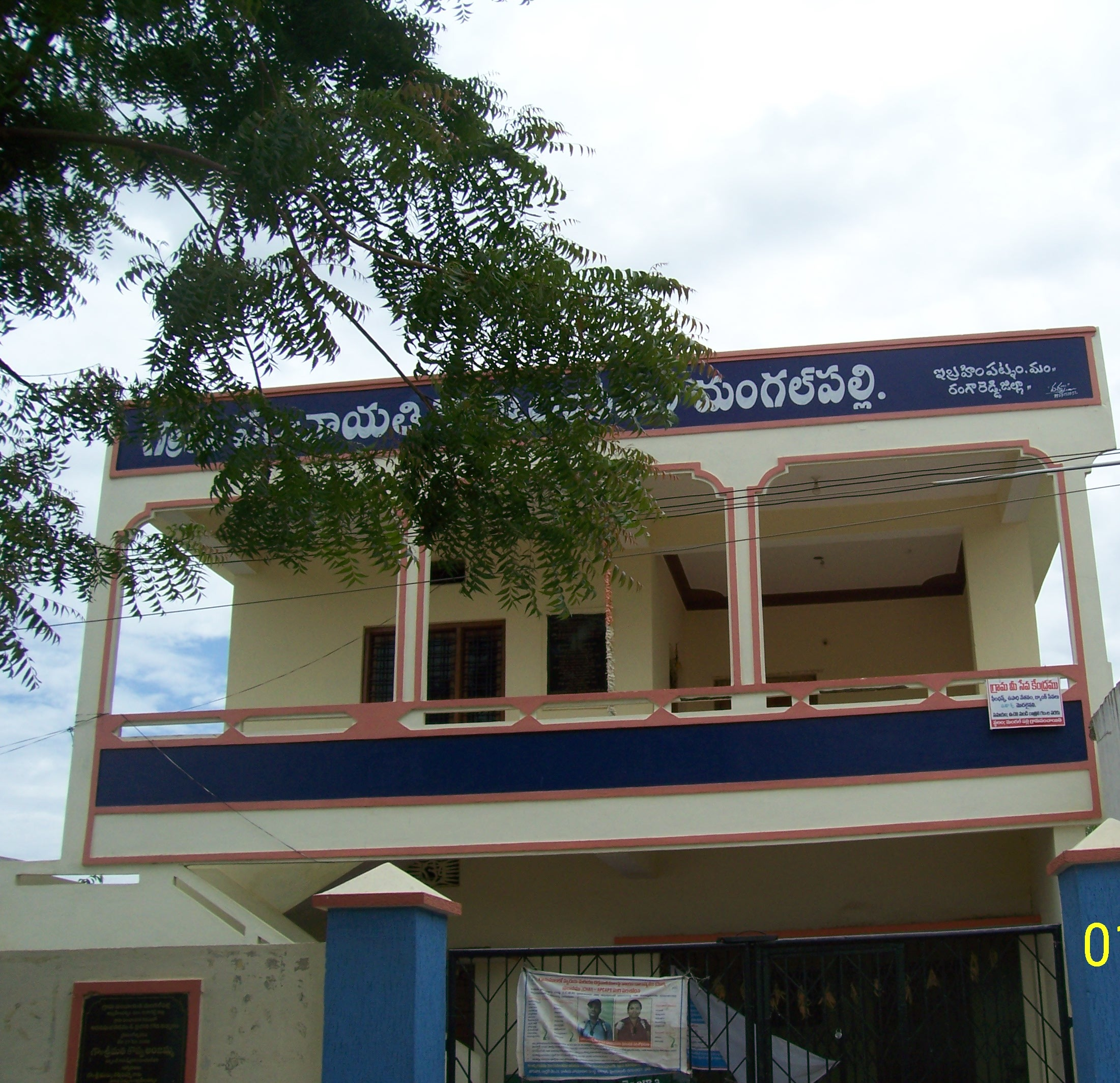 Panchayat office